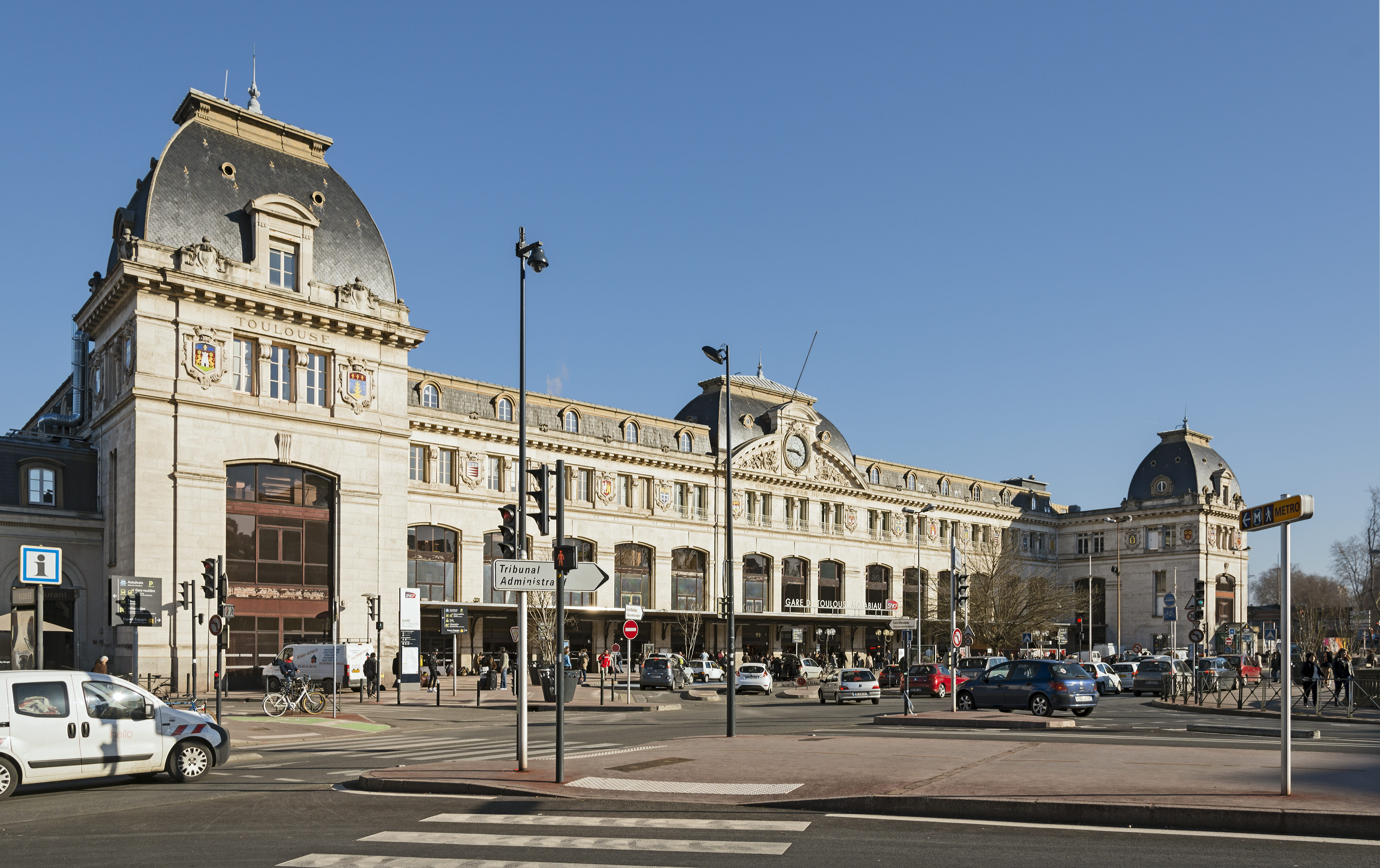 Facade of the Gare de Toulouse-Matabiau by Marius Toudoire – 1903